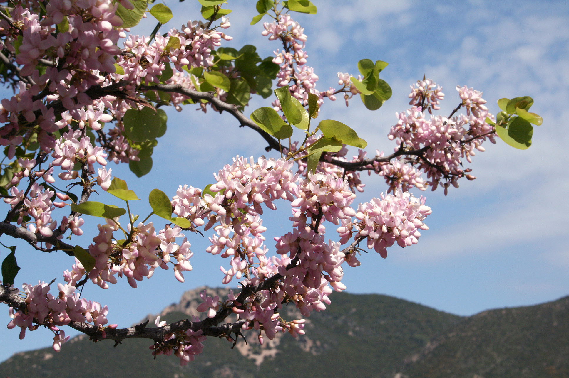 Judas Tree (Cercis siliquastrum) – Habit :Sari-d'Orcino - Cinarca - (Corse-du-Sud) - France. Corsu: Arburu di Djhiuda (Cercis siliquastrum) - Locu: Sari-d'Orcino - Cinarca - (Corsica Sutanna) - Francia. Walon: Aube di Judée (Cercis siliquastrum) - Place: Bocca di a Scaleda - Cinarca (Corse-do-Sud) - France.